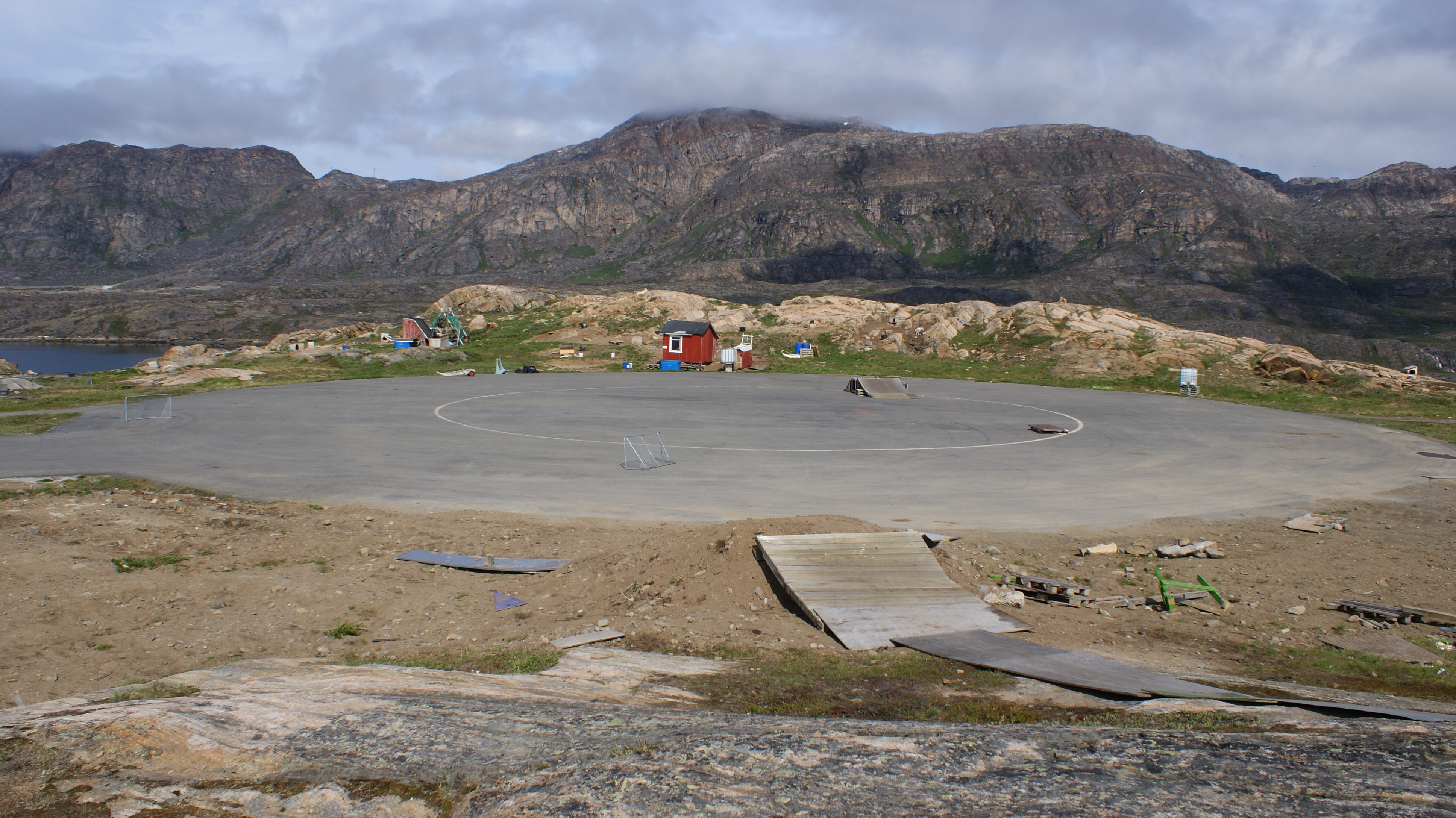 The helipad at the old heliport site in Sisimiut, Greenland.